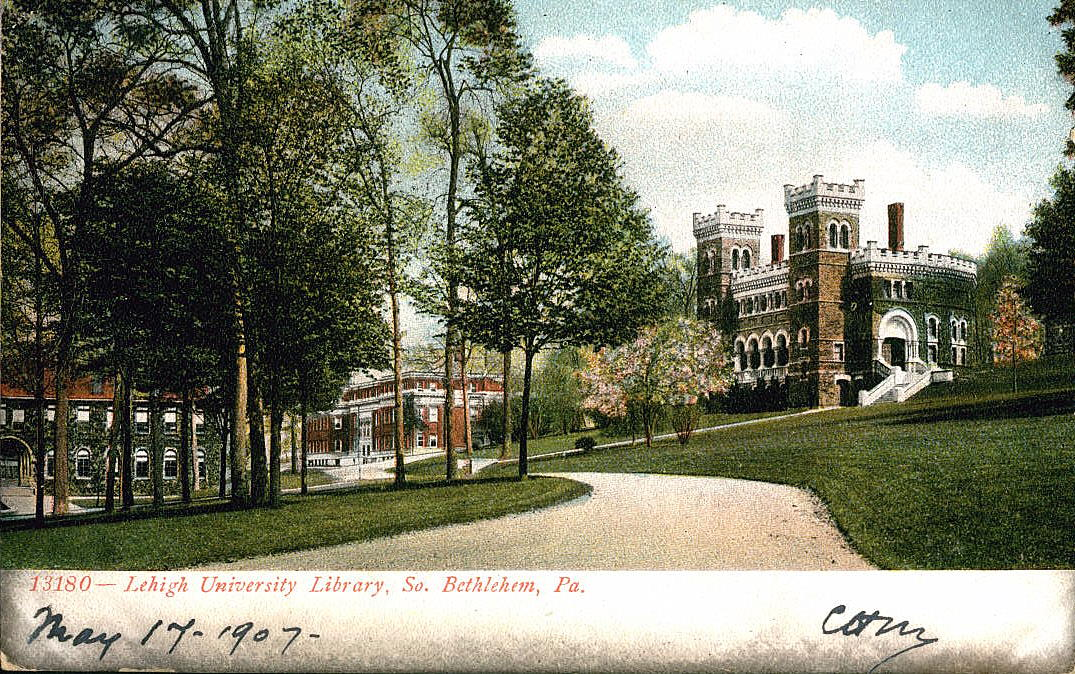 Lehigh University Library